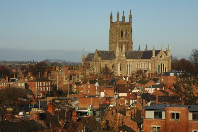 Worcester Cathedral Worcester Cathedral viewed from Fort Royal Hill. From this viewpoint the size of the cathedral is very apparent, the building dwarfs all the buildings around it.